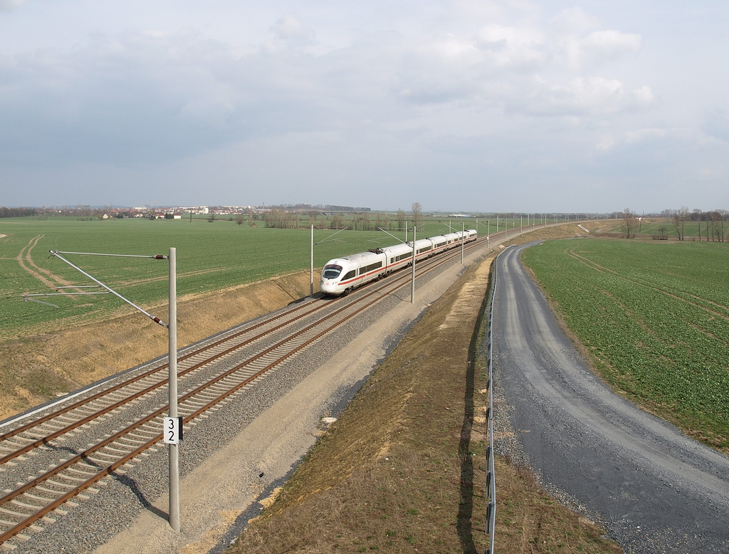 ICE T to Frankfurt, photographed near Strießen